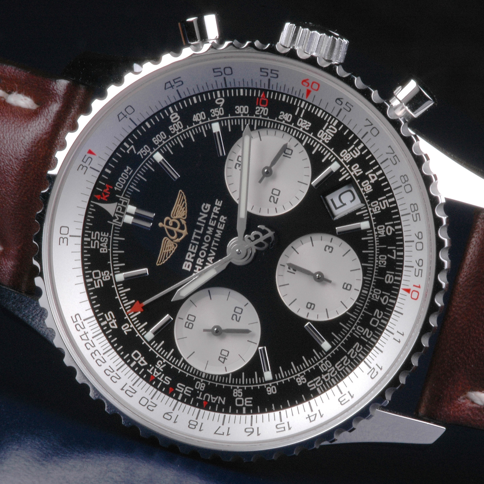 Slide rule on a Breitling Navitimer watch. Original work by Torsten Bolten under CCSA 3.0. Cropped.